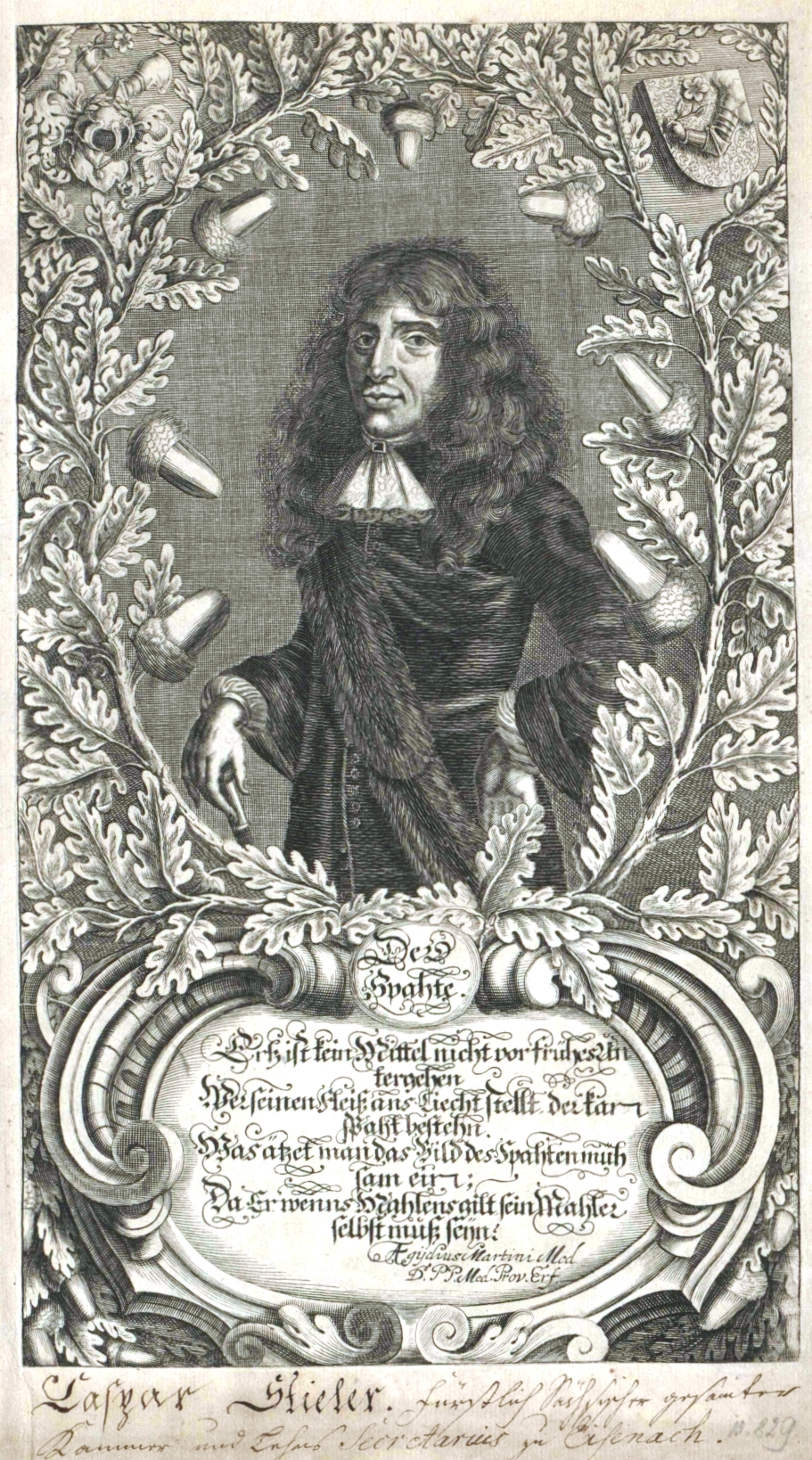 portrait of Kaspar von Stieler, 1632-1707, German Author, Engraving from his work "Der Teutsche Advokat...", Nürnberg, Hofmann,1678